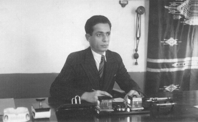 Abdurrahman Melek (1896-1978)